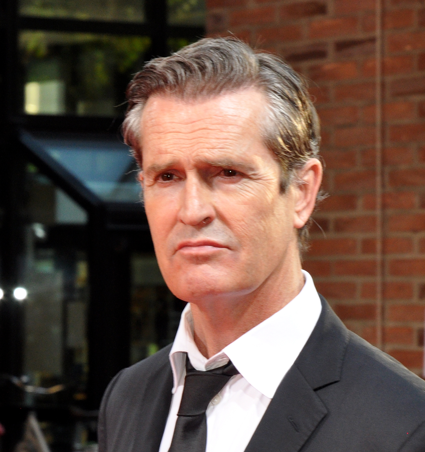 Rupert Everett at Munich Filmfestival 2015